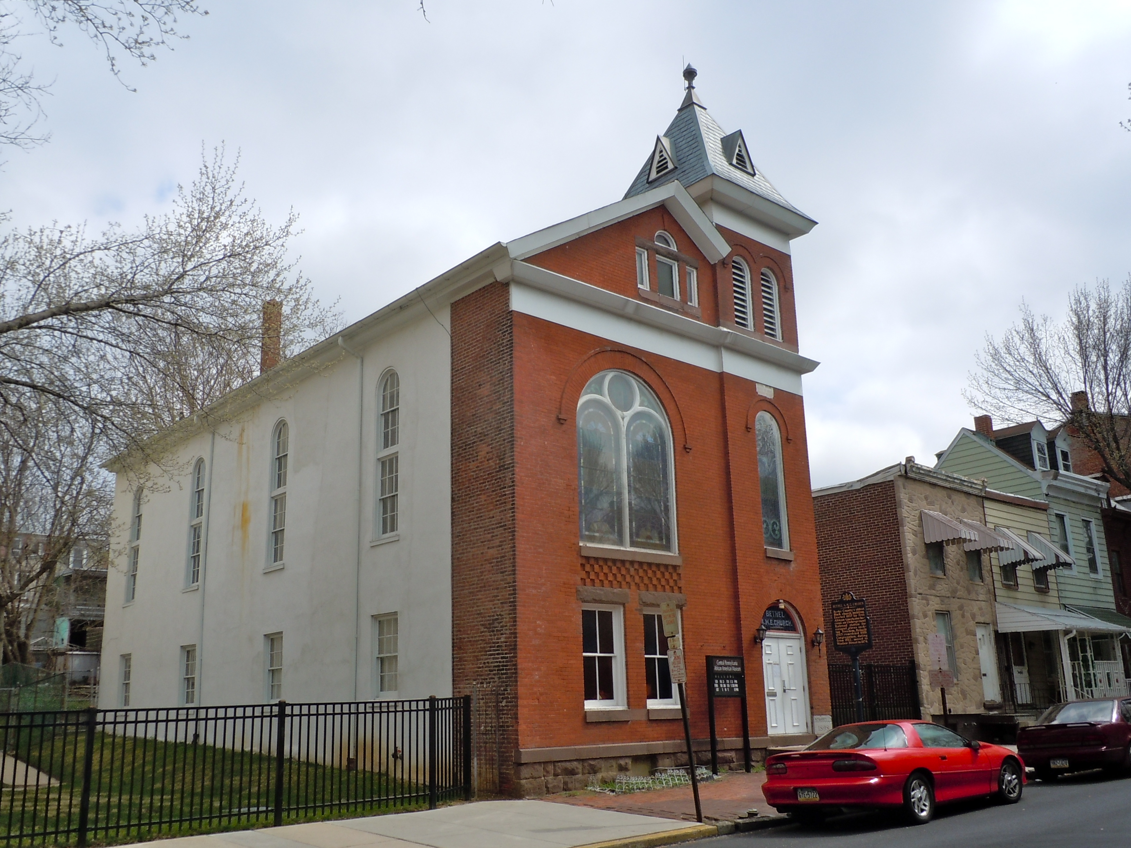 Bethel A.M.E. Church on the NRHP since September 7, 1979. At 119 North 10th Street, Reading, Berks County Pennsylvania. Black church built in 1860s, founded earlier